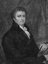 DeWitt Clinton, Life engraving by W. R. Jones, 1814